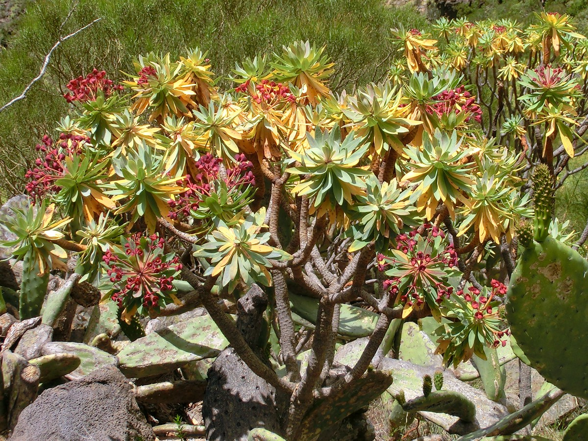 Euphorbia atropurpurea, habit. W Tenerife, Teno mountains, SW of Santiago del Teide, Roque del Paso, ca. 800 m.